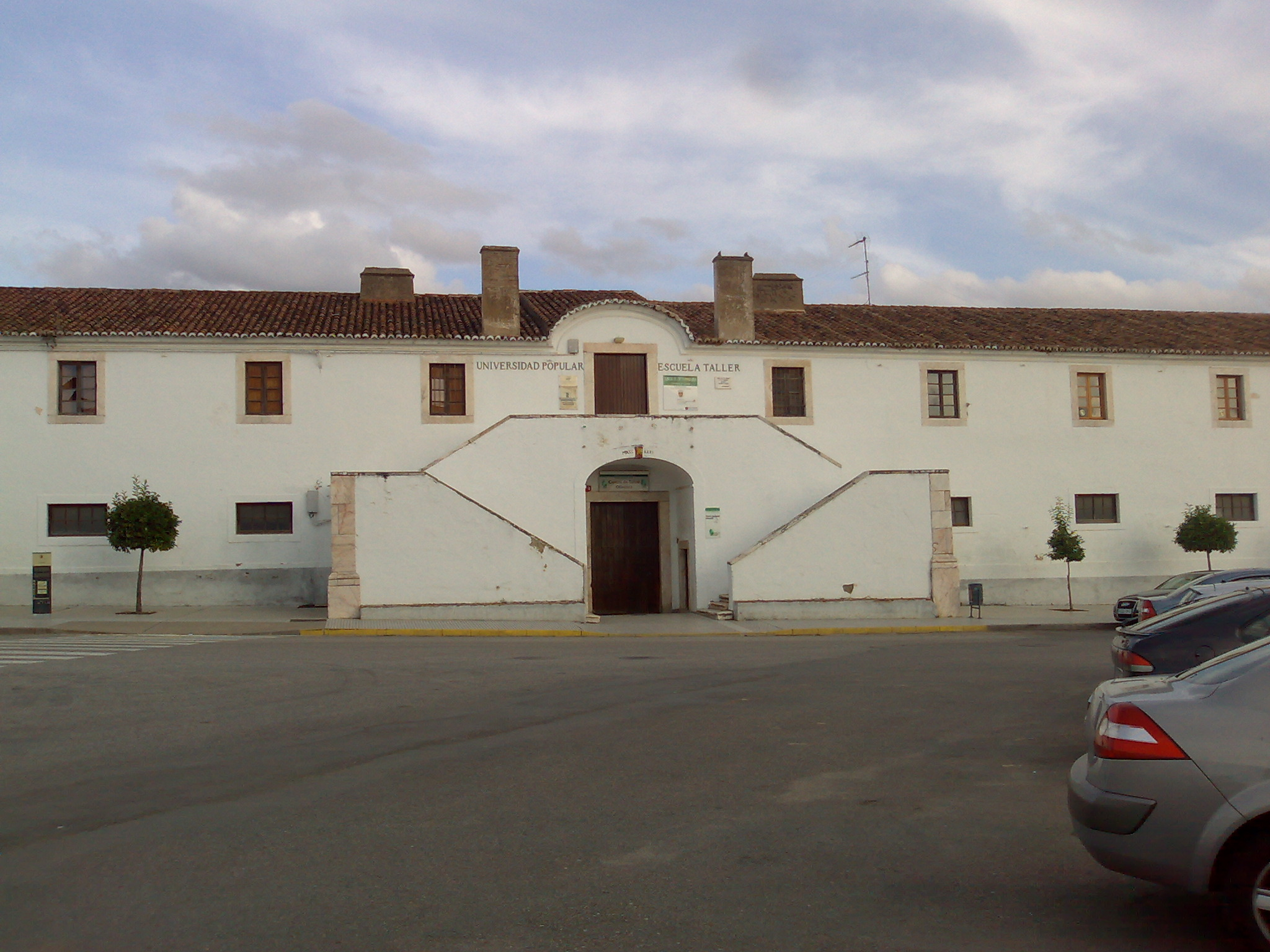 Olivença